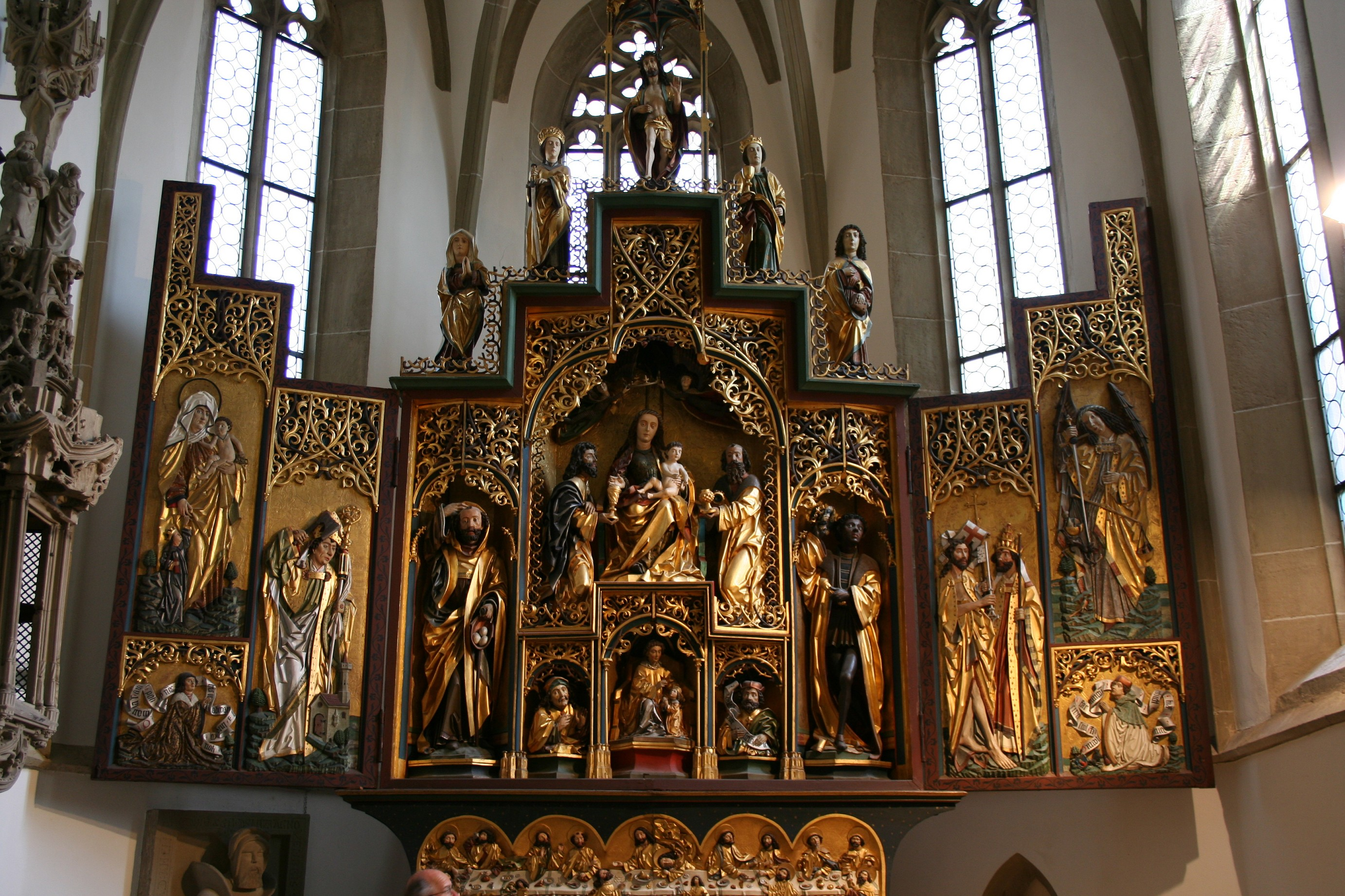 Altar of Cyriakus Church in Bönnigheim